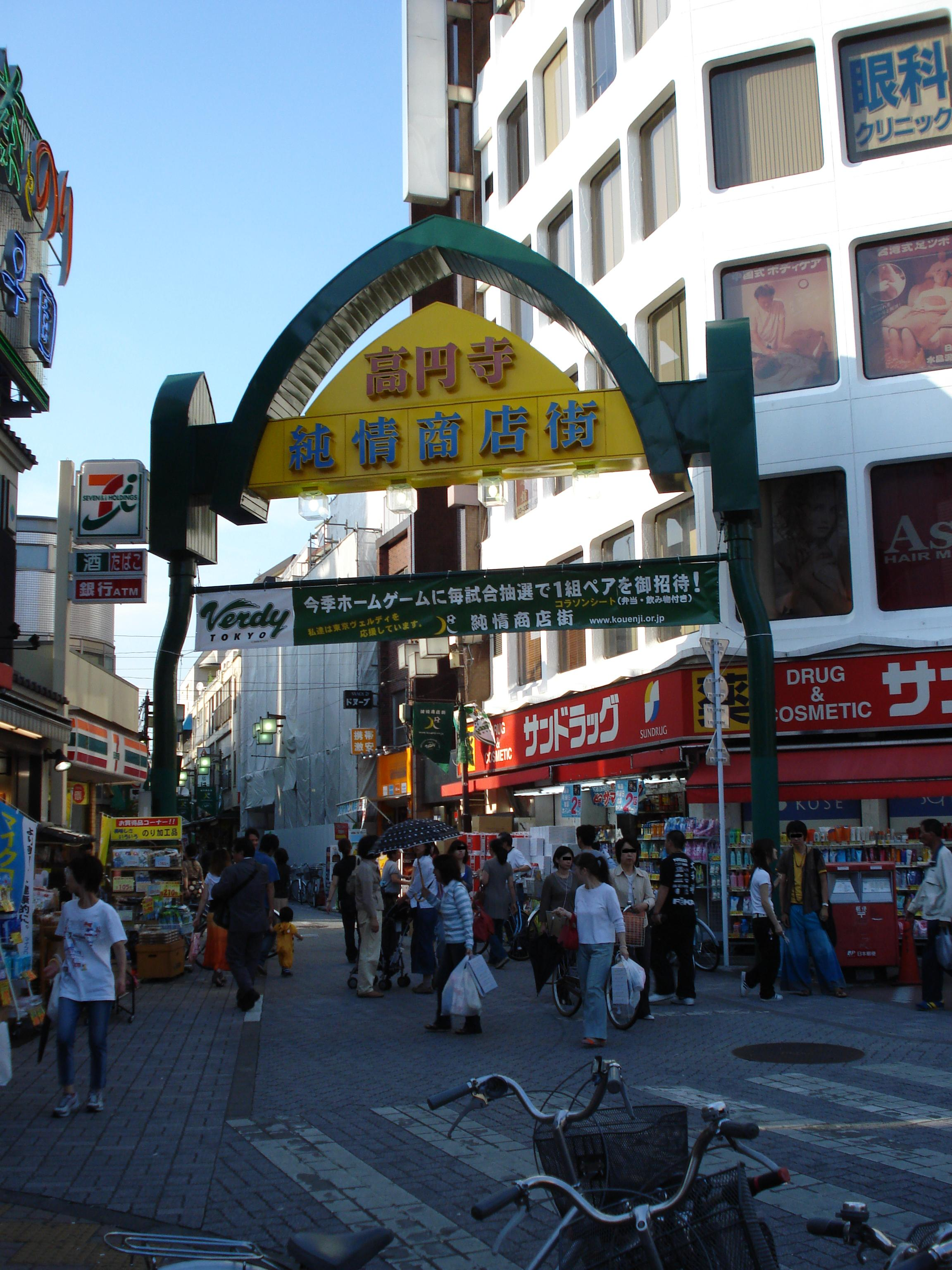 town